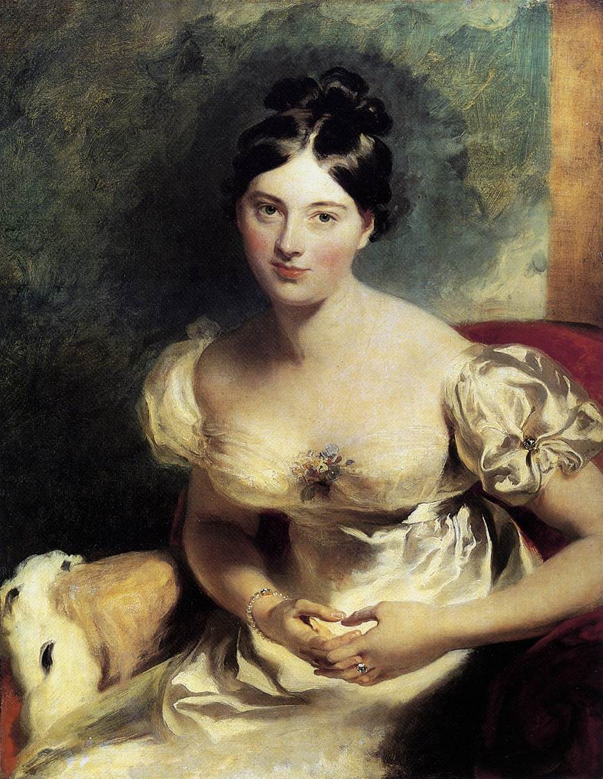 Marguerite Gardiner, Countess of Blessington (1789—1849), in 1822